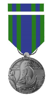 Medal Rememberence Medal arrival of the Ambonese in the Netherlands